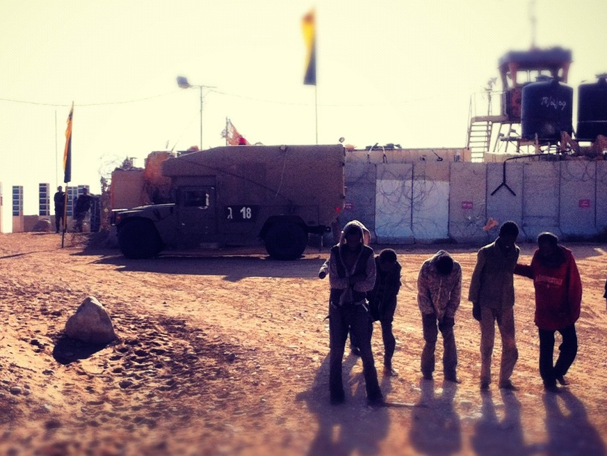 African refugees next to the Egyptian-Israeli border